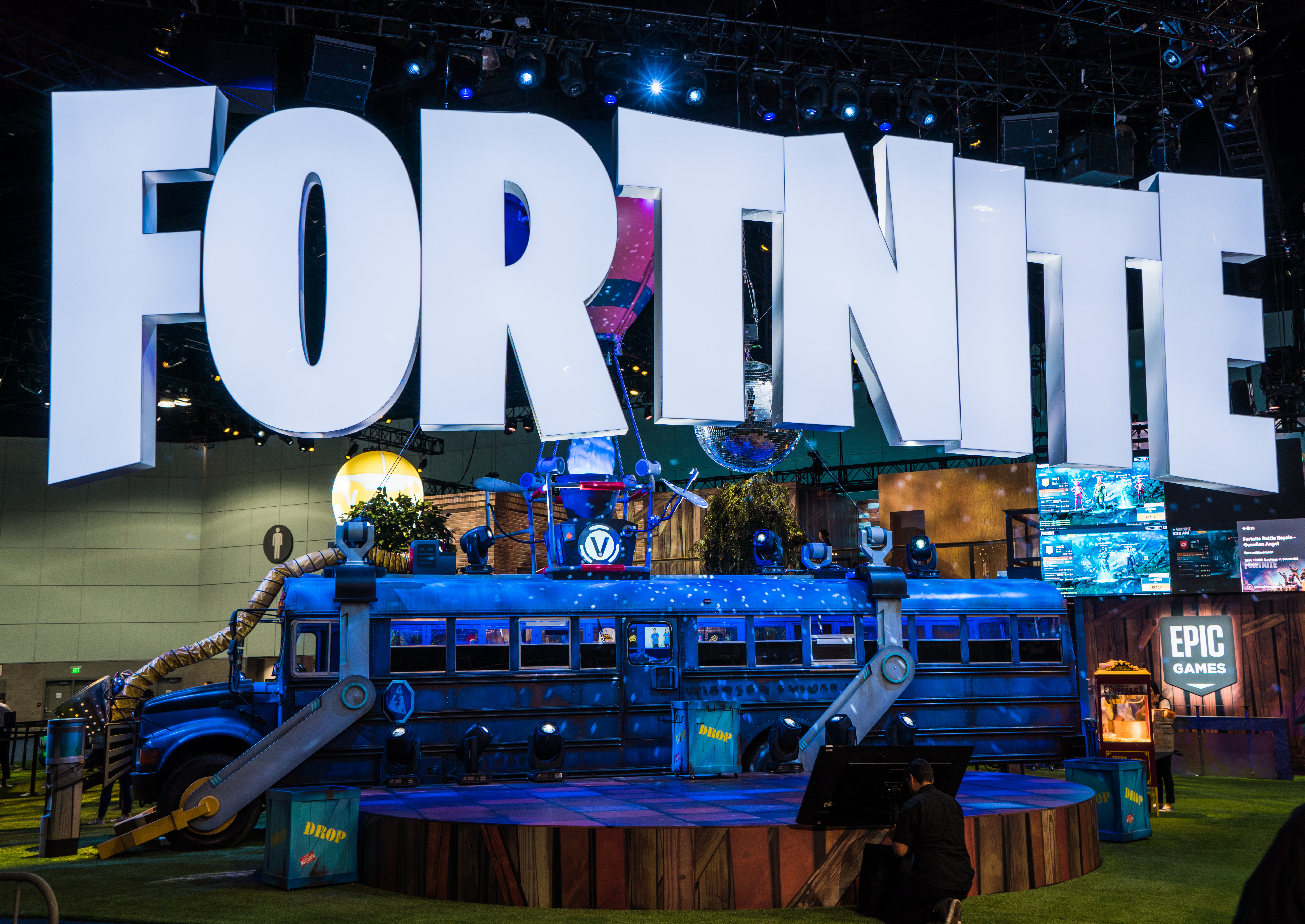 Fortnite at E3 2018